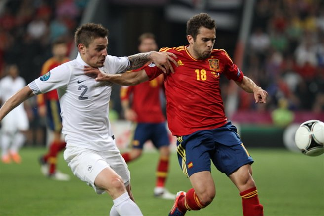 Mathieu Debuchy and Jordi Alba at Euro 2012 match Spain-France